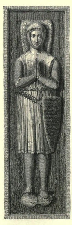 Tomb of William de Valence, 1st Earl of Pembroke, in Westminster Abbey